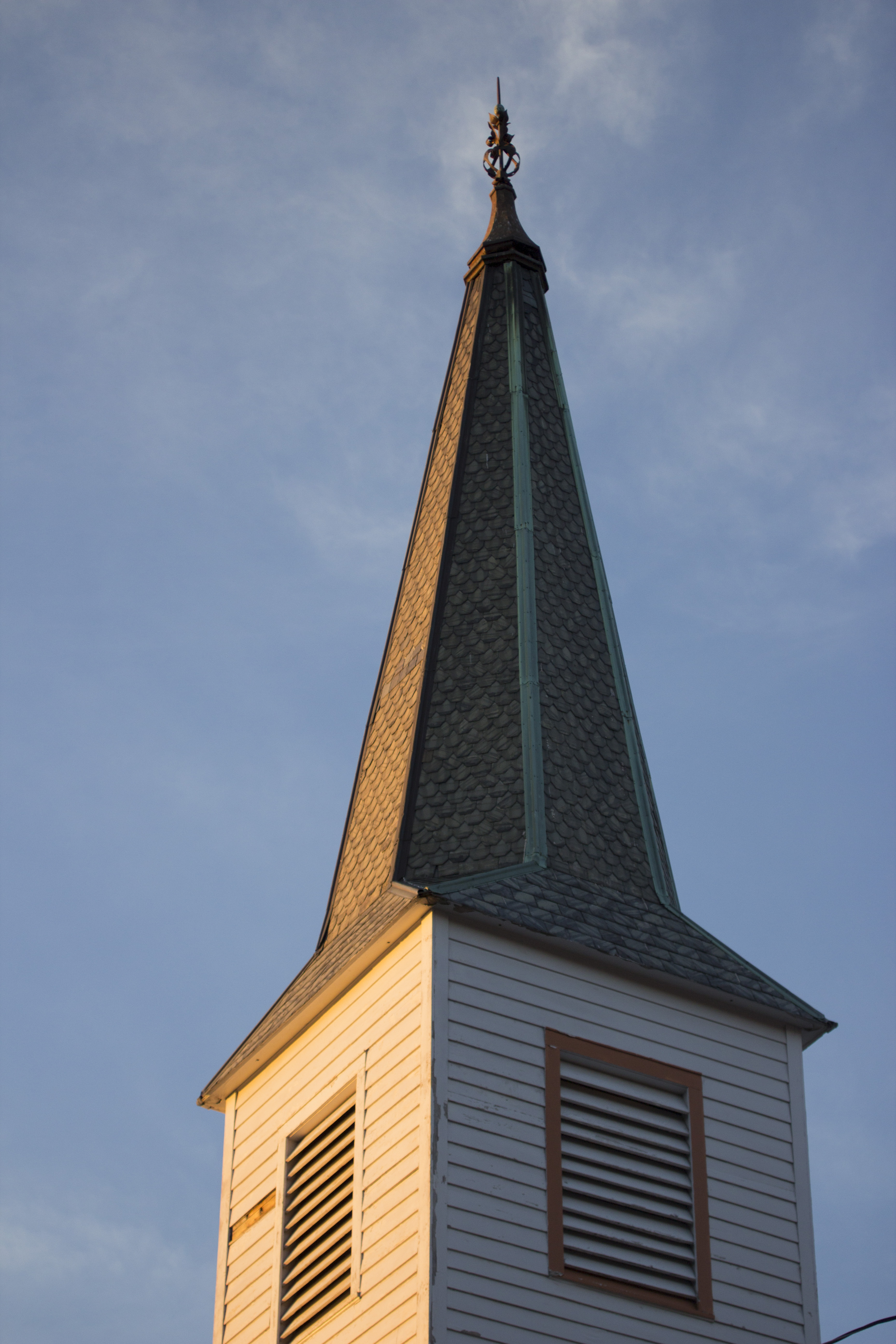 Photo of the tower to the Springfield Baptist Church in Beacon, New york